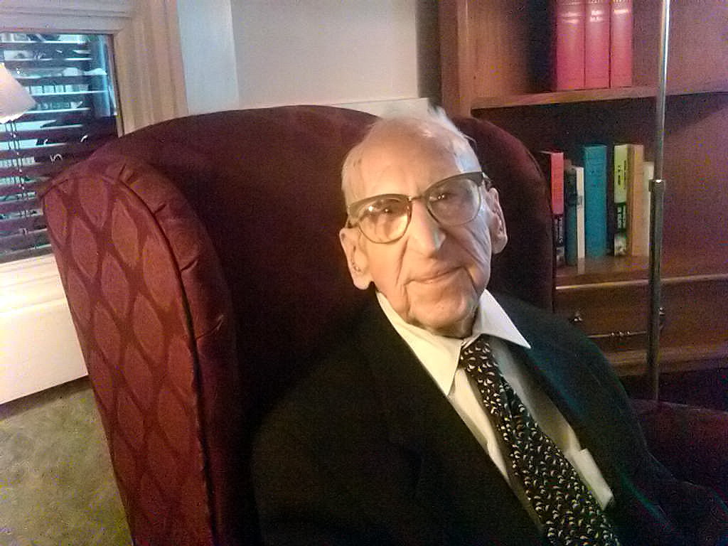 Picture of Walter Breuning, taken on April 8, 2010